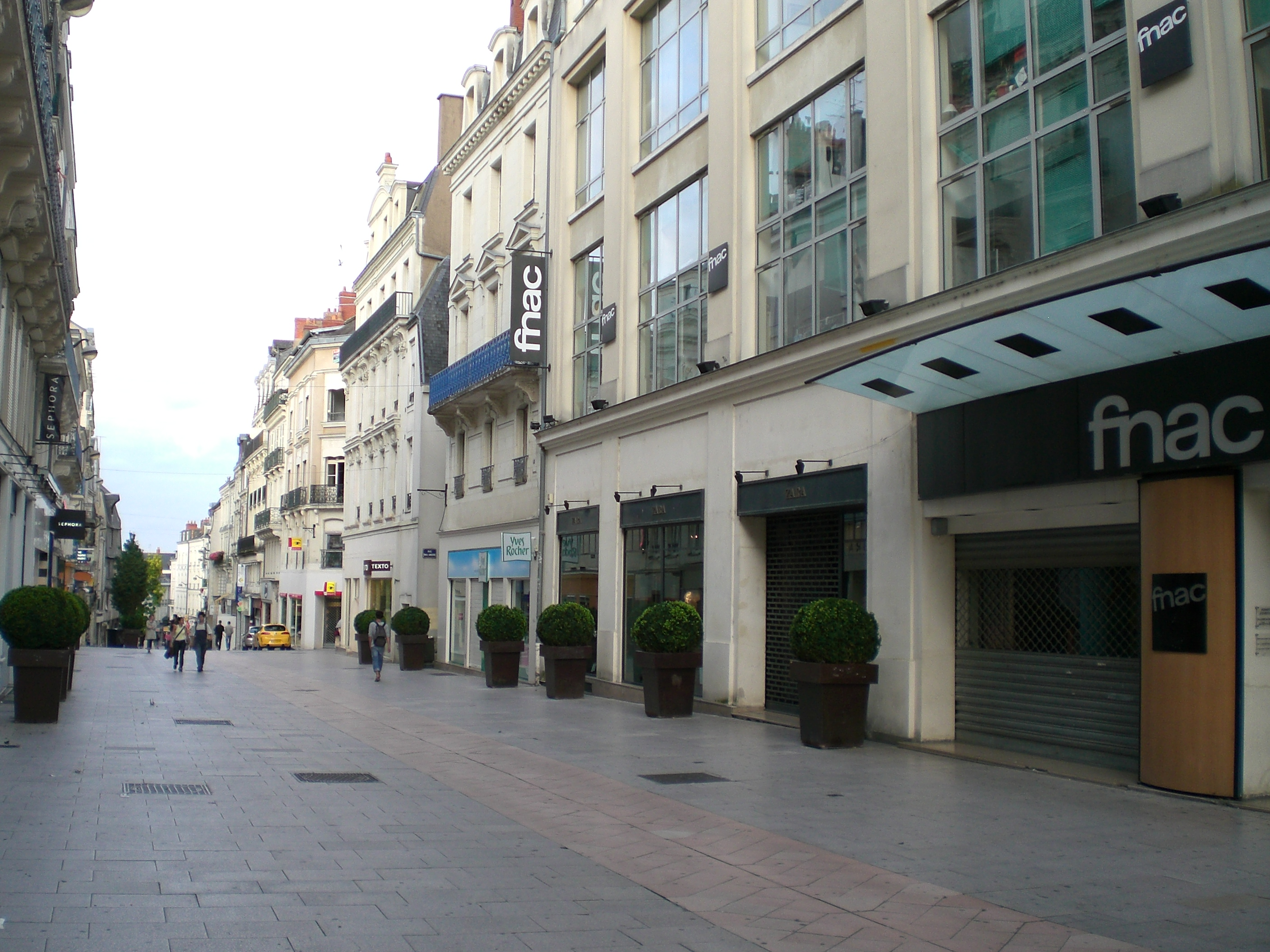 "Rue Lenepveu, one of the main shopping streets of Angers downtown, connected to the "Place du Ralliement", the city's central square. Angers, Maine-et-Loire, Pays de la Loire, France.